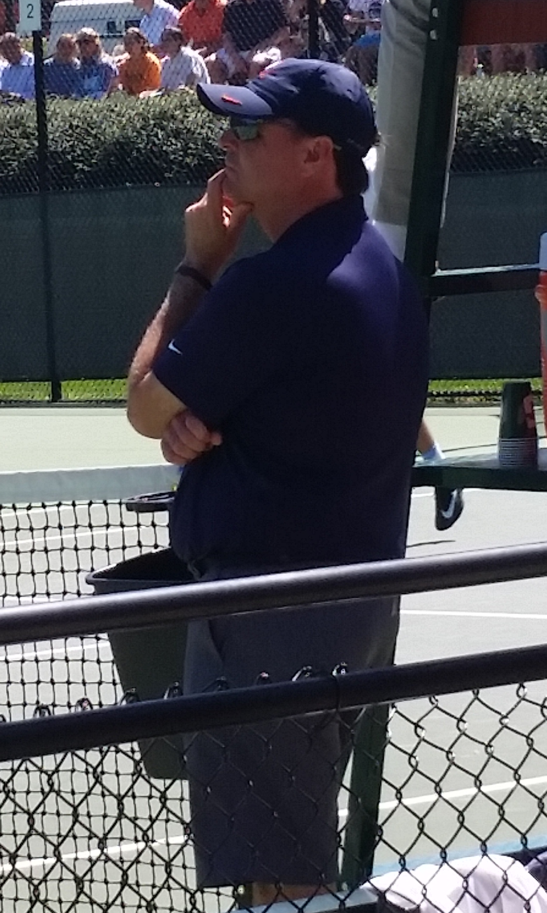 Boland coaching the Virginia men's tennis team against UNC on April 9, 2017.